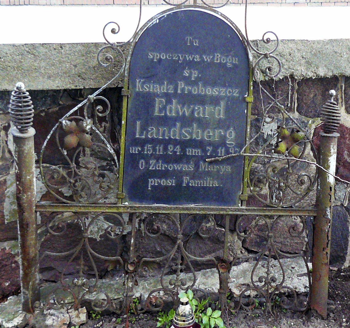 Landsberg Tomb, Skorzewo Church.